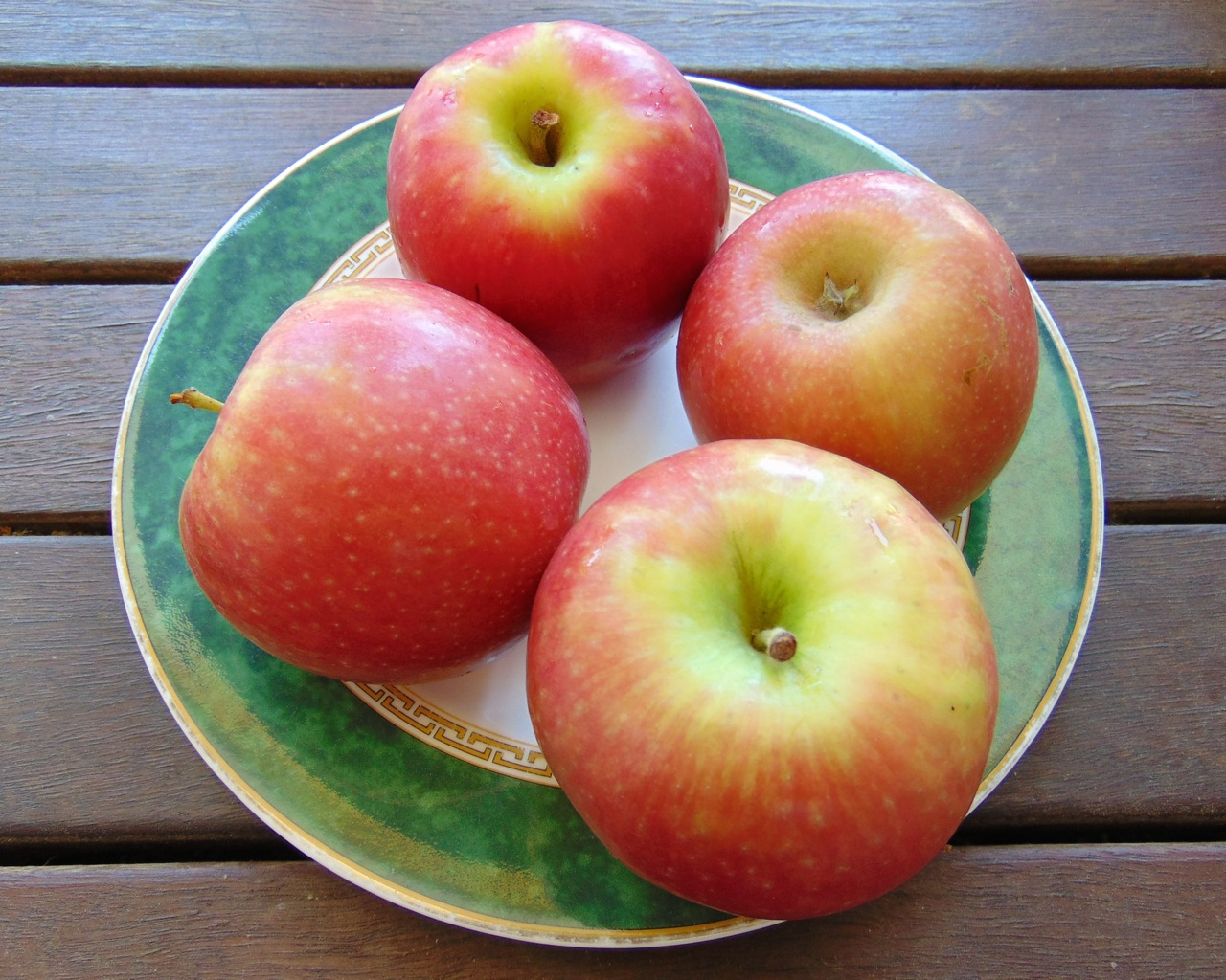 'Rosy Glow' apples bought in Australia. Sport of 'Cripps Pink' Please respect author's moral rights by not changing this description or the image title.